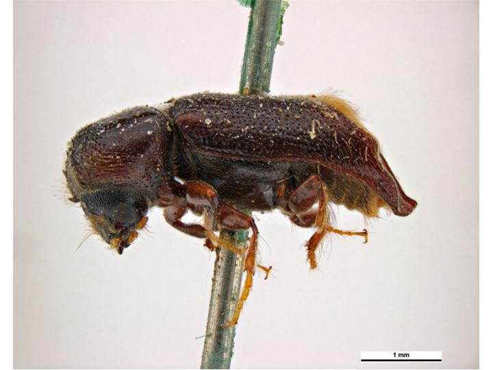 Xylopertha retusa Location: Austria, Thirk